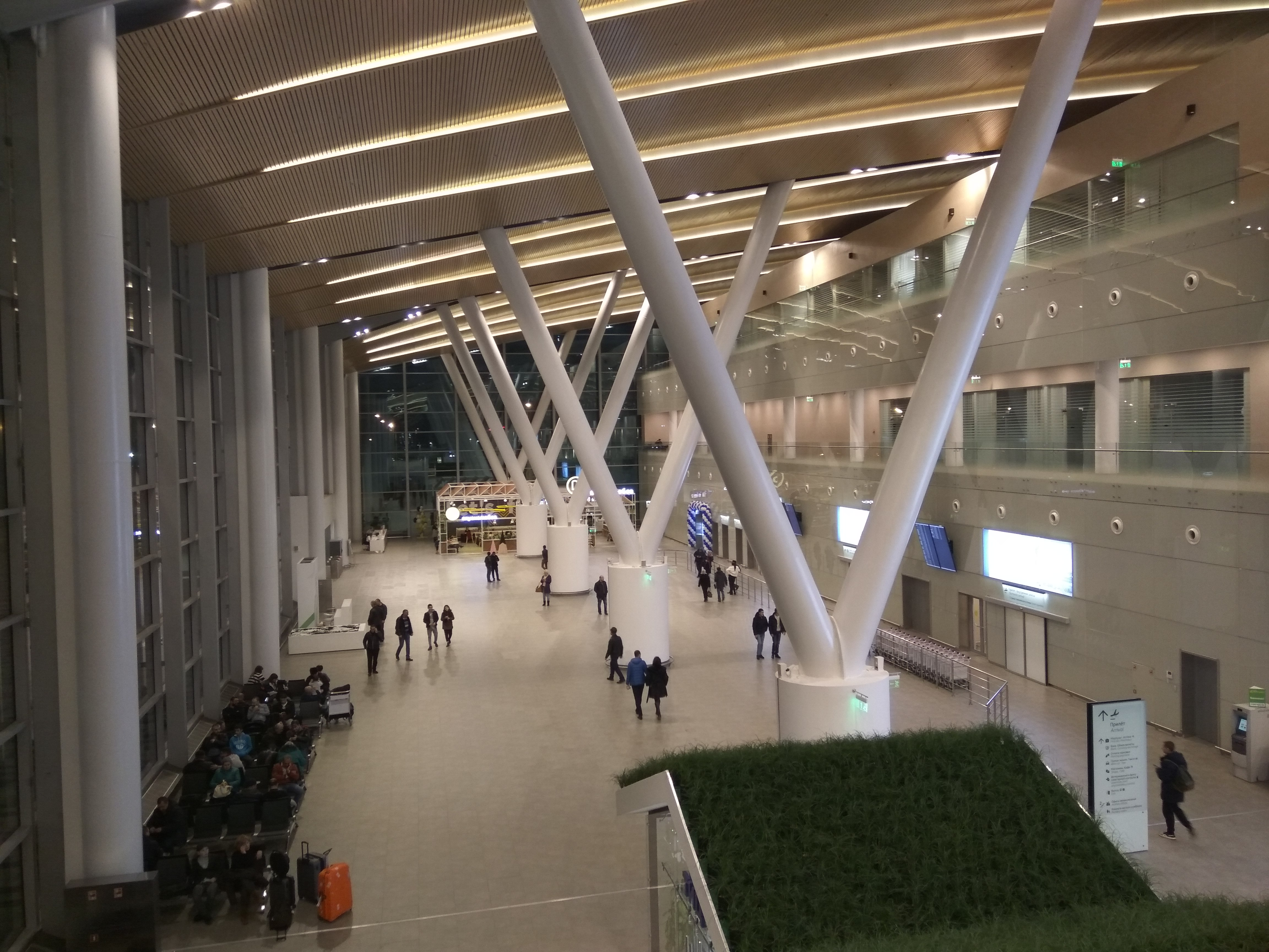 Platov International Airport, Rostov-on-Don